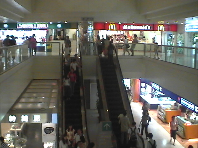 New Town Plaza Level 4 in 2003